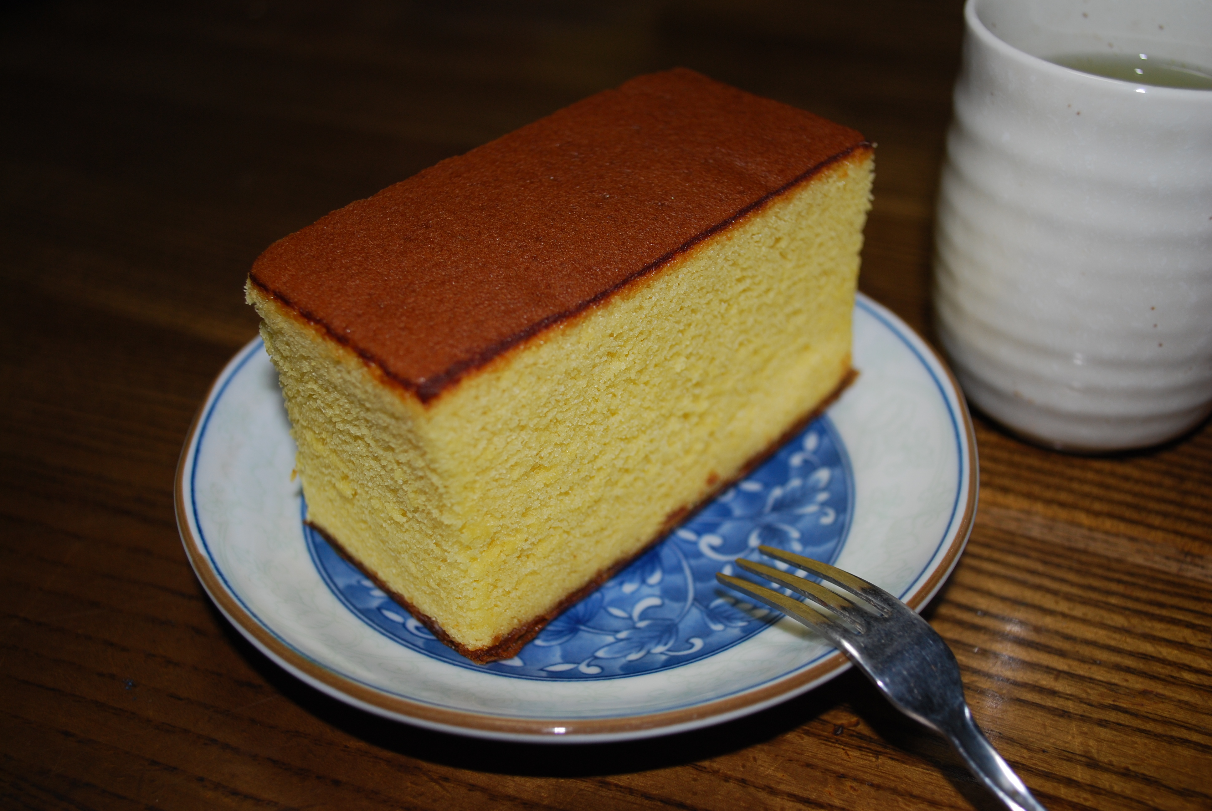 Castella,made in nagasaki-city,japan